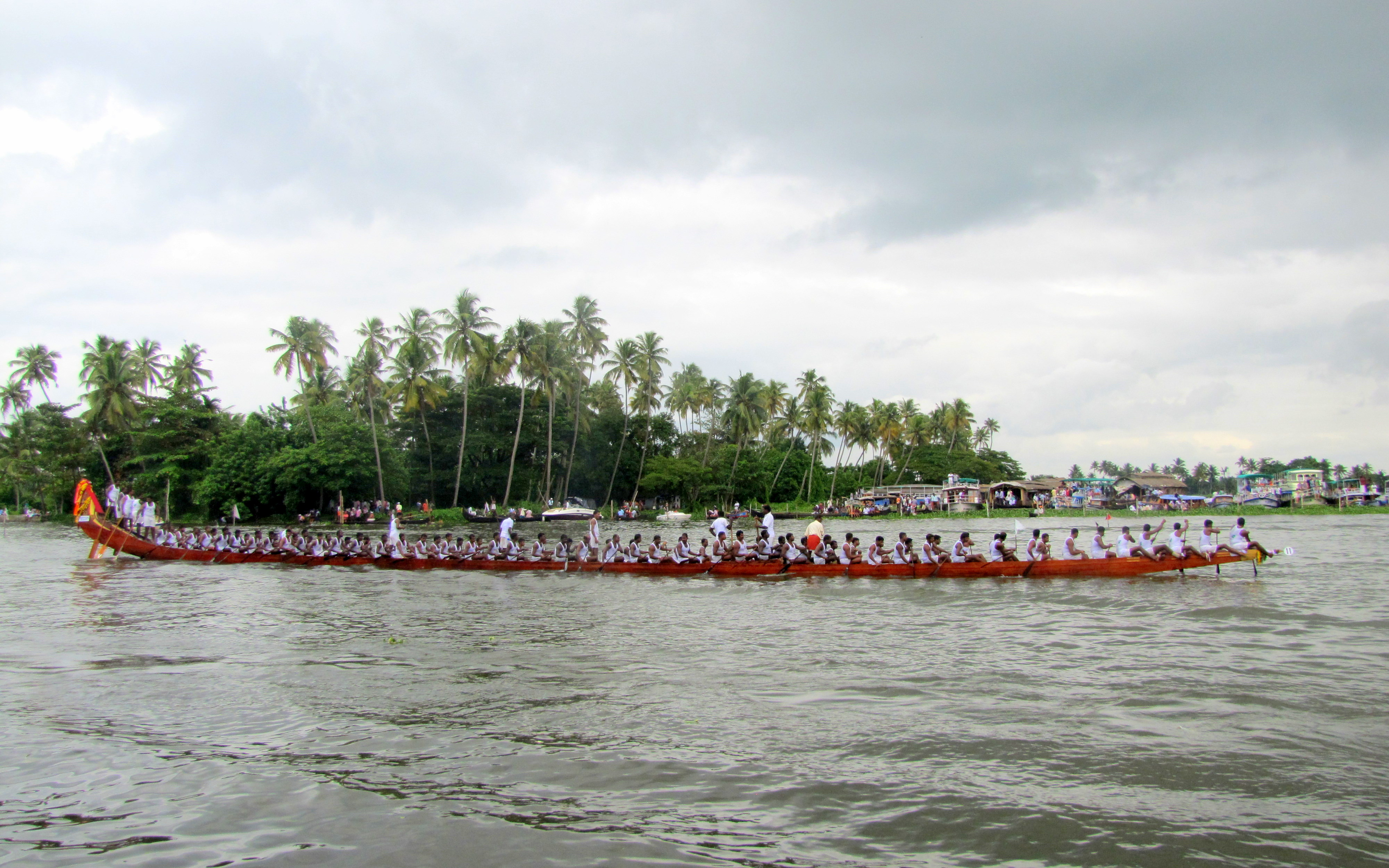 The Nehru Trophy Boat Race is a popular Vallam Kali held in the Punnamada Lake near Alappuzha, Kerala, India. Vallam Kali or Vallamkali literally means boat play/game, but can be translated to boat race in English. The most popular event of the race is the competition of Chundan Vallams (snake boats). Hence the race is also known as Snake Boat Race in English. Other types boats which participate in various events of the race are Churulan Vallam, Iruttukuthy Vallam, Odi Vallam, Veppu Vallam (Vaipu Vallam), Vadakkanody Vallam and Kochu Vallam. The race conducted on the second Saturday of August every year is a major tourist attraction.